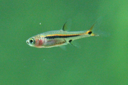 A least rasbora (Thai: ปลาซิวหนู) or Boraras urophthalmoides in an aquarium. This wild-caught specimen is still recovering from the catch and is not in the prime condition. It displays a non-breeding color pattern, which makes it difficult to identify the sex. Picture taken by myself.